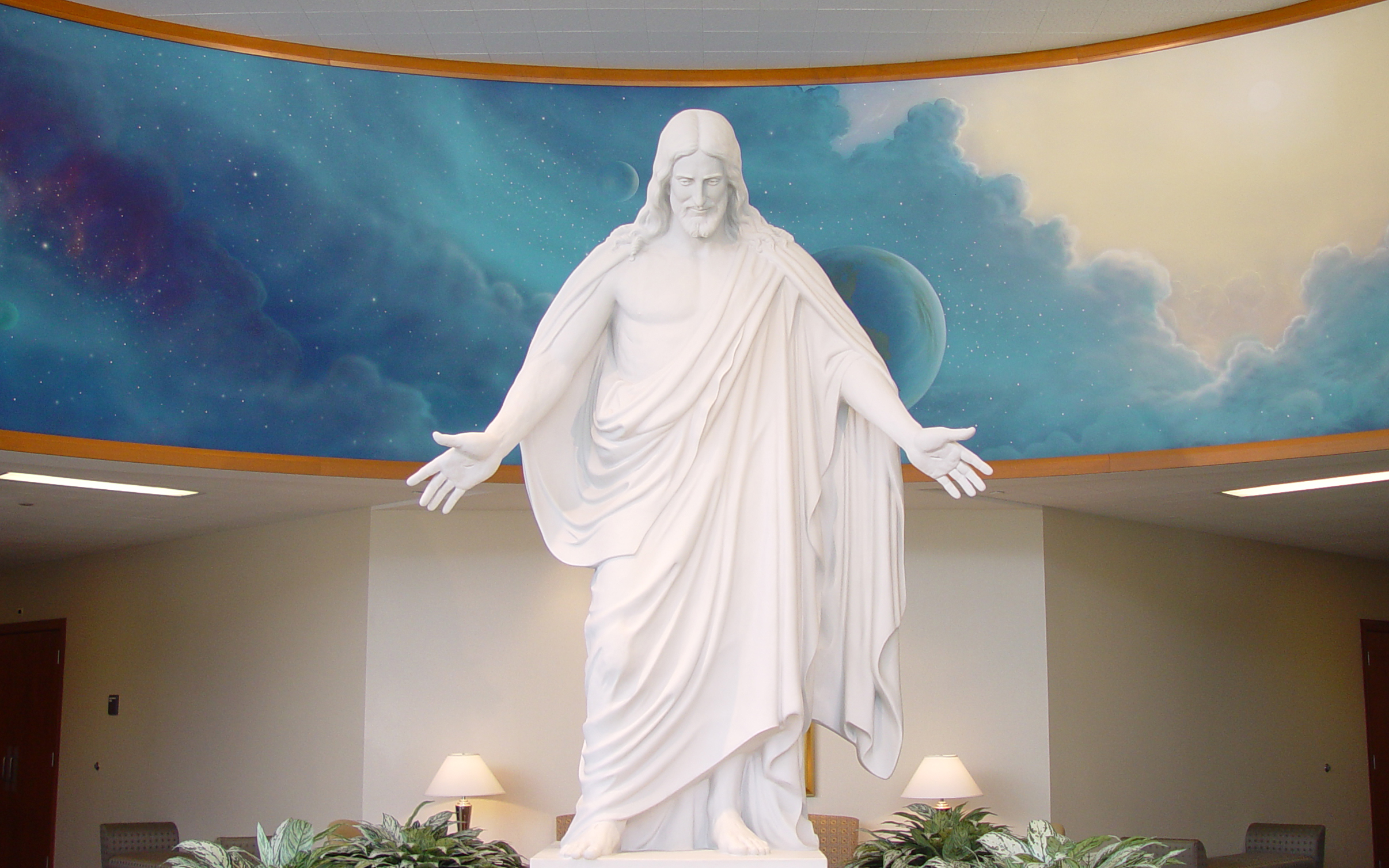 Photographer: myself, Gh5046 Taken 2005/09/17 in the Visitor's Center at the Oakland California Temple of The Church of Jesus Christ of Latter-day Saints.